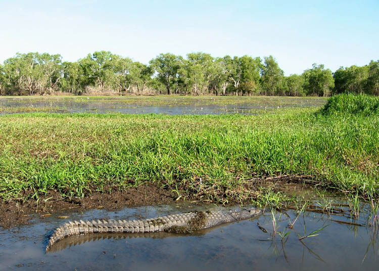 Crocodile at rest, Yellow Waters Billabong, Kakadu NP, NT.